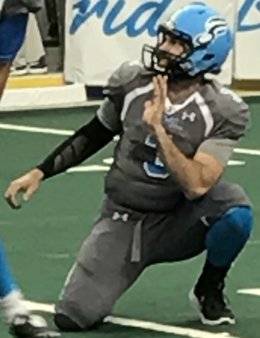 Adrian Trevino finishing a field goal attempt. Luke Collis holding. Caesar Rayford rushing.